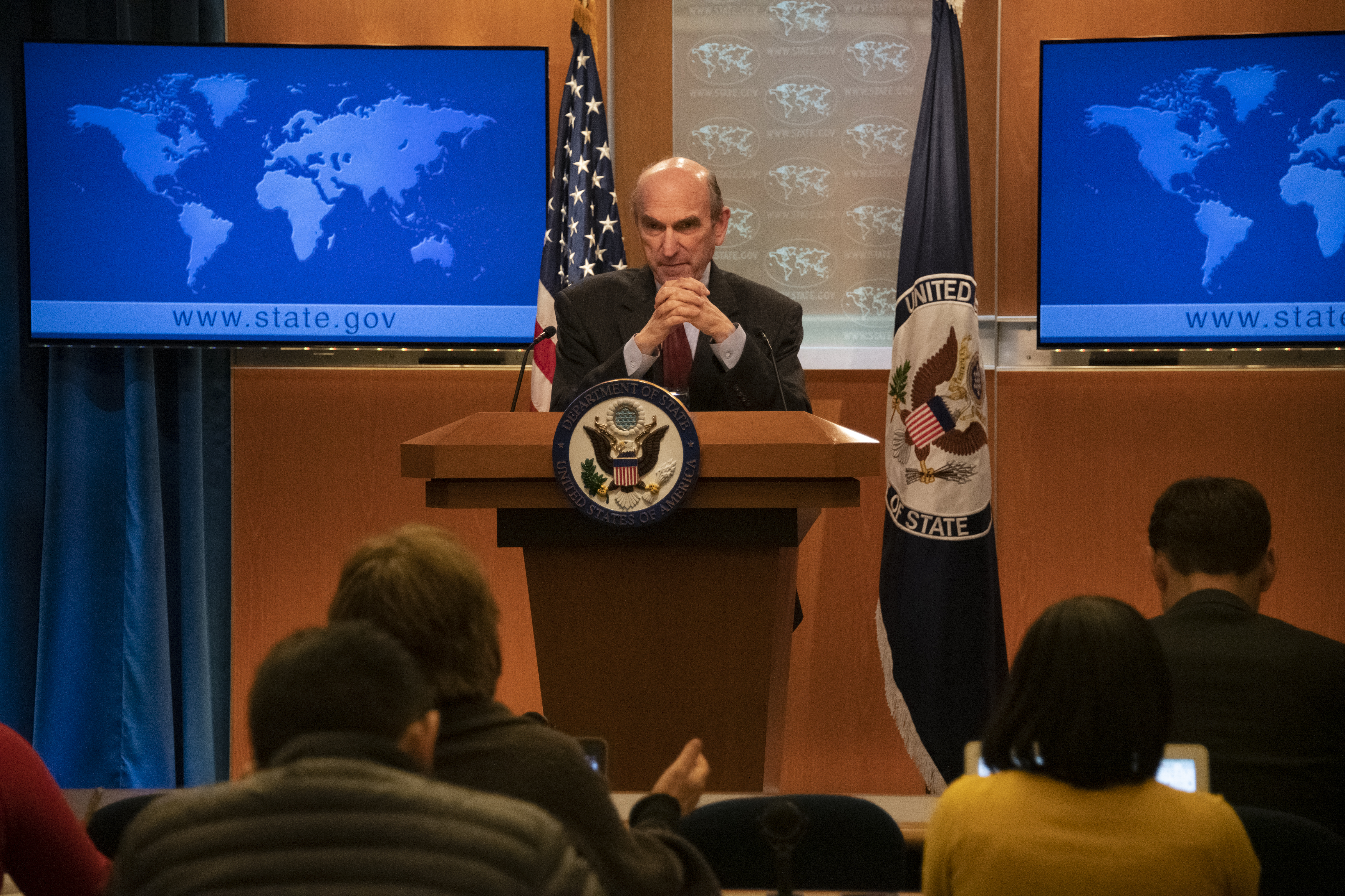 Elliott Abrams. U.S. Special Representative for Venezuela provides remarks and takes questions from the media at the U.S. Department of State in Washington, D.C., on March 8, 2019. [State Department photo by Ron Przysucha/ Public Domain]